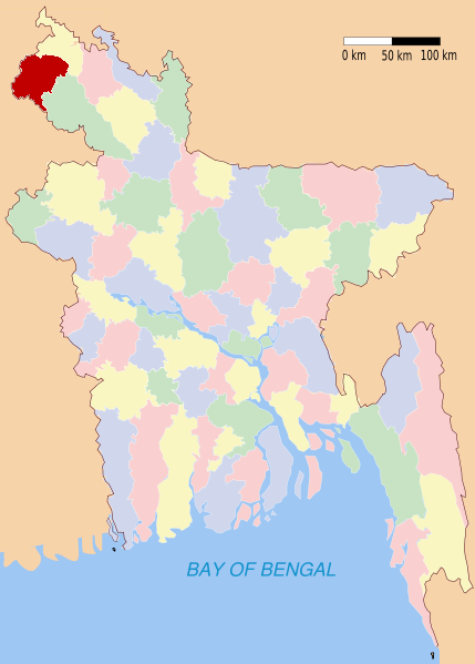 District locator map in red in Bangladesh